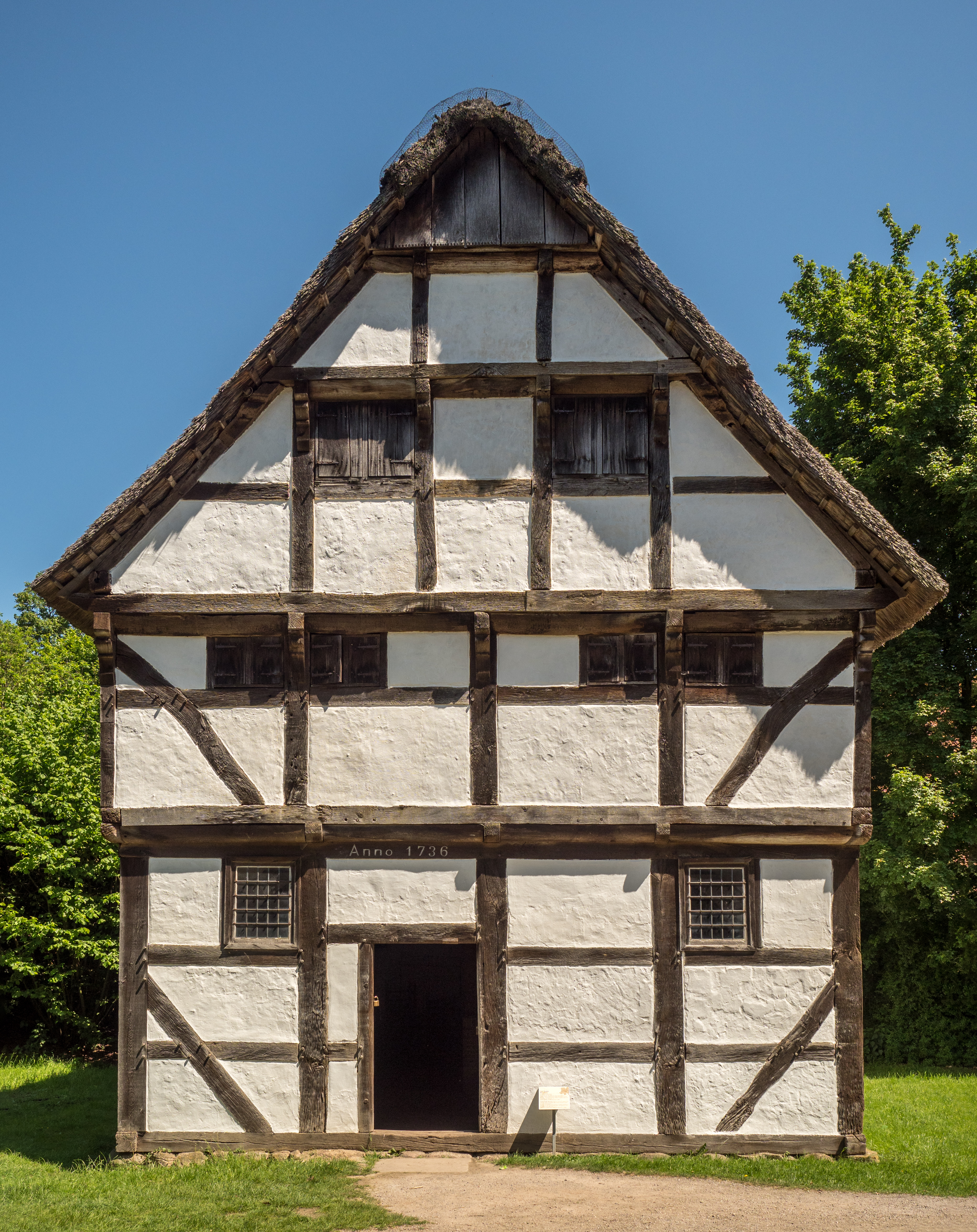 Brewery in the museum village Cloppenburg built 1736 Visbek/Vechta district